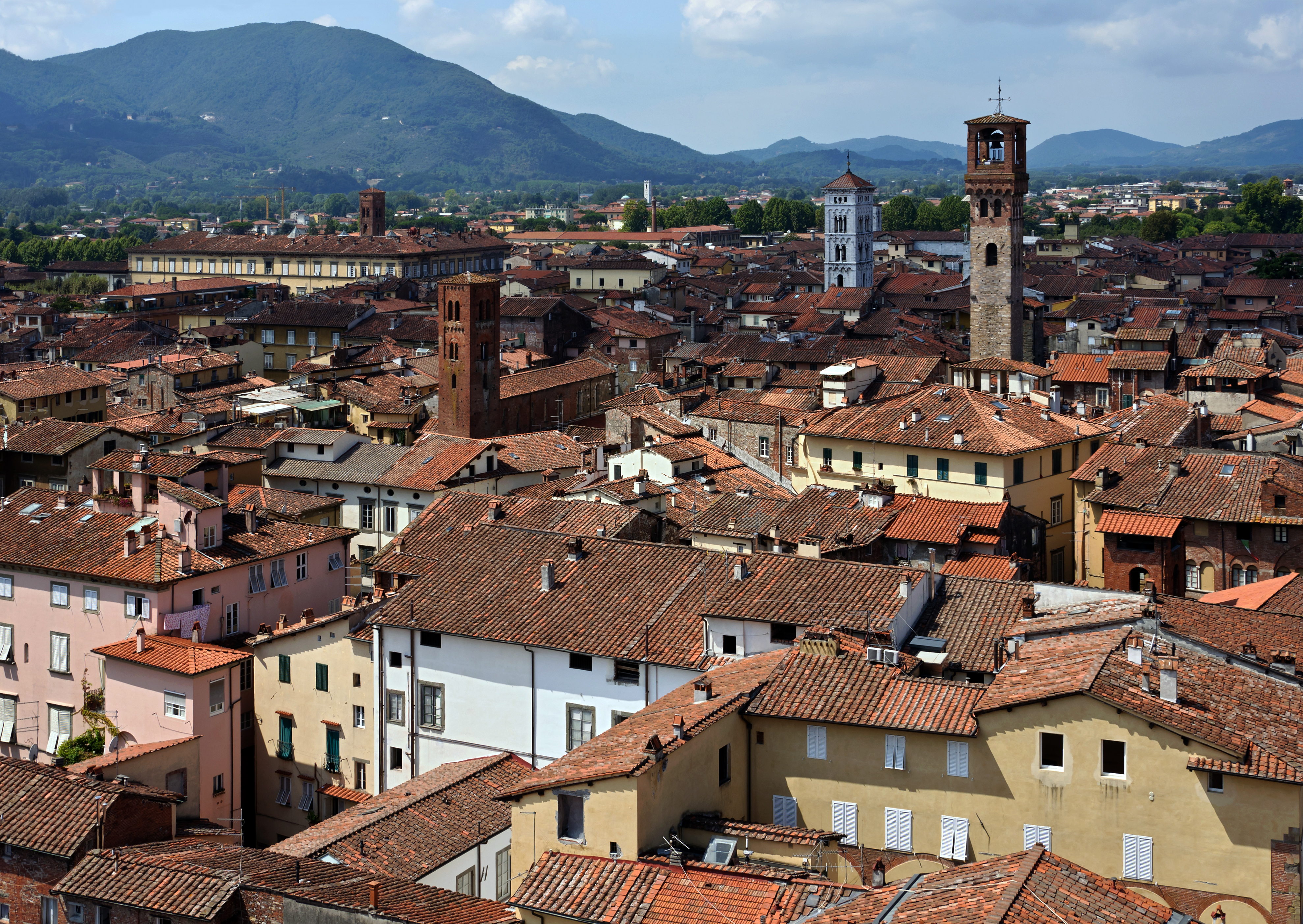 Lucca, Tuscany, Italy, seen from the Torre Guinigi. On this view, one can see in particular the church of San San Giusto, the campanile of San Michele in Foro and the Torre delle Ore.